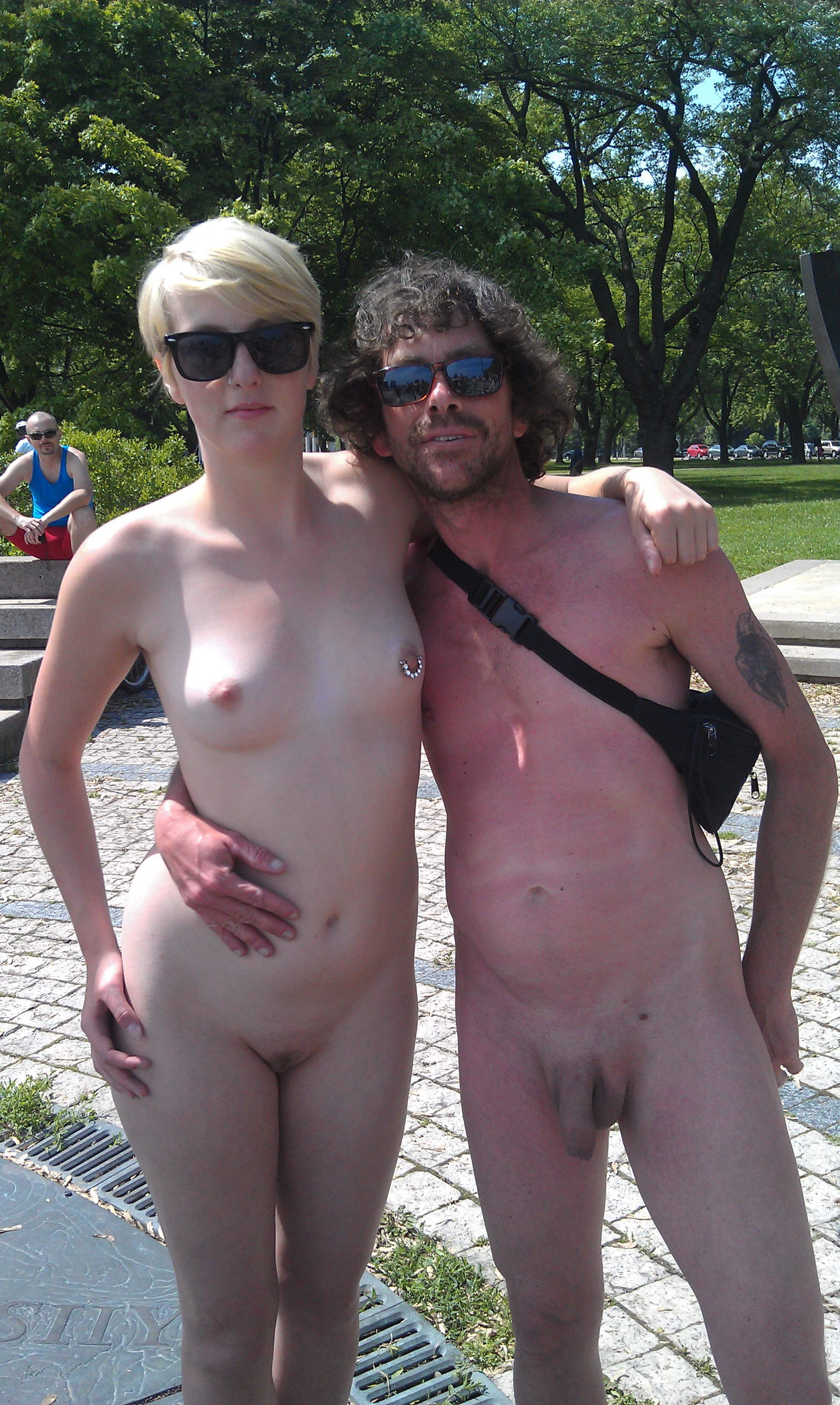 Naked couple at the World Naked Bike Ride 2013